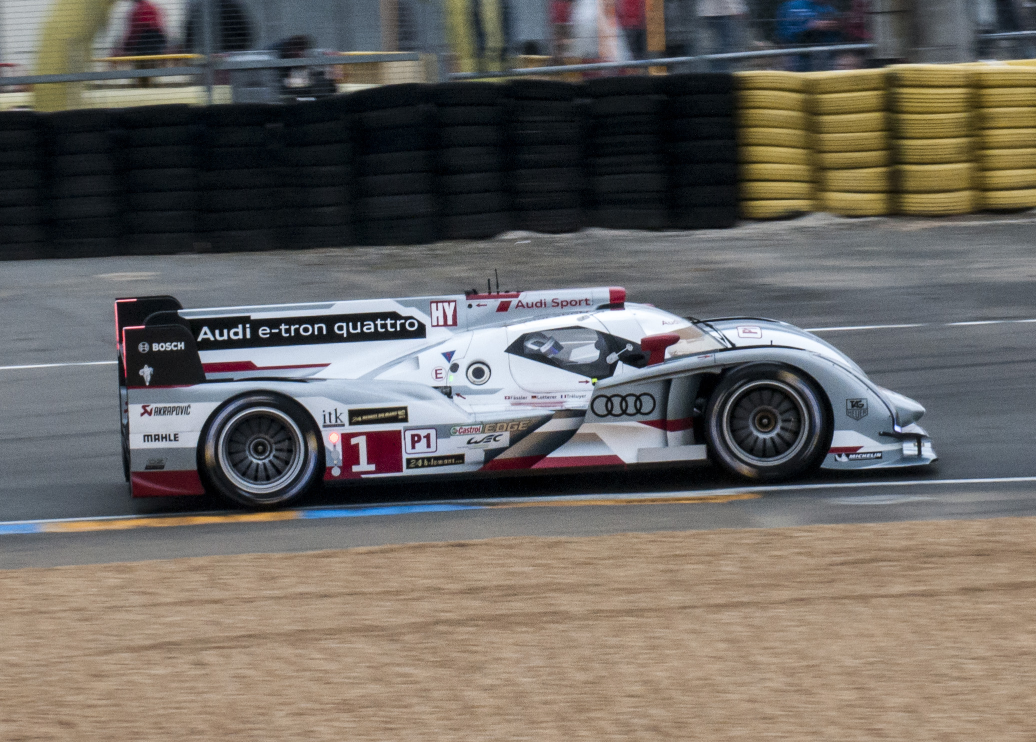 Audi R18 e-tron quattro #1 in Le Mans Le Mans coverage for Diariomotor. You are free to use this image but if you want to, please link to this URL